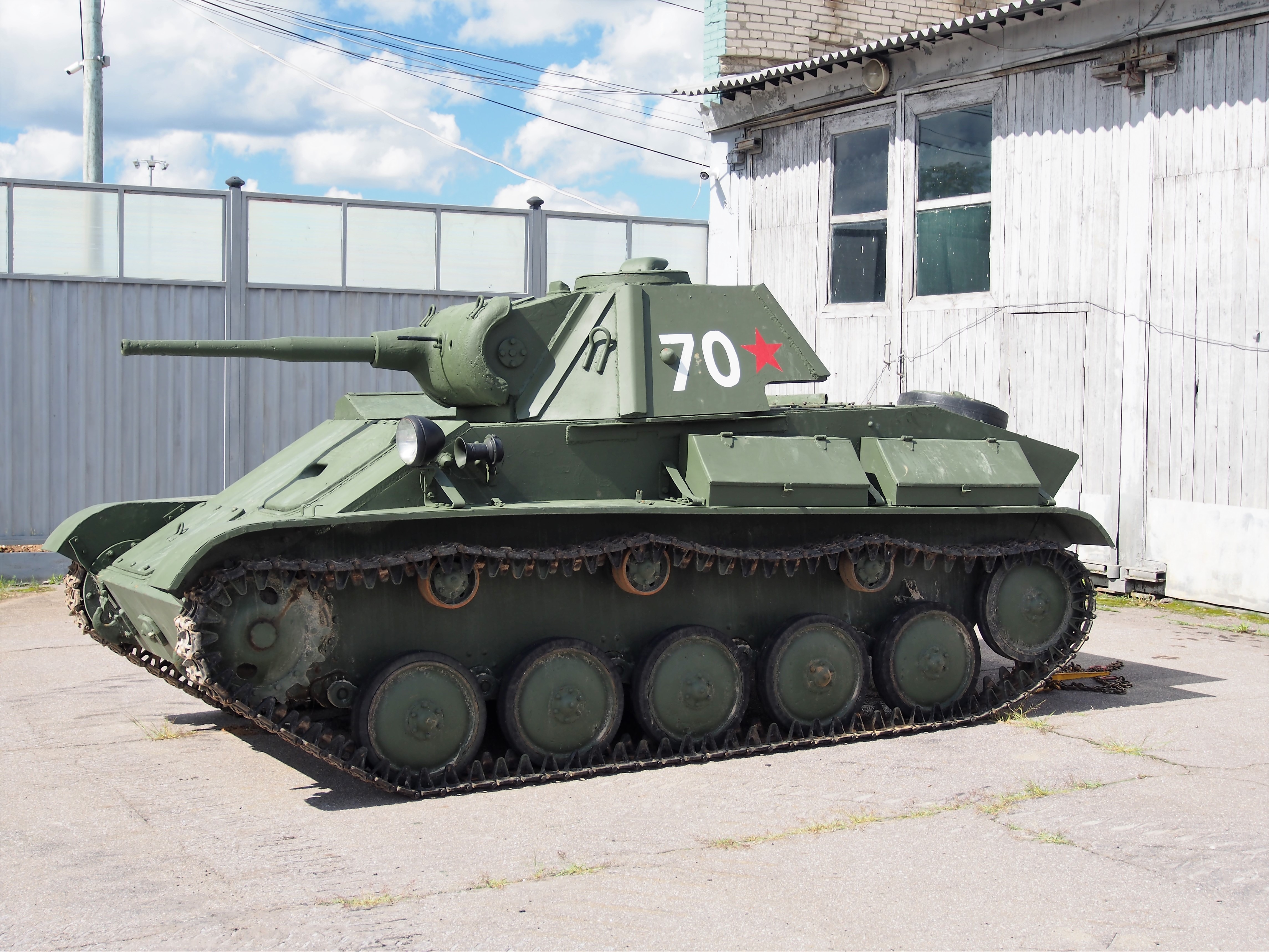 T-70 Light tankin the Central Museum of armored vehicles in Kubinka